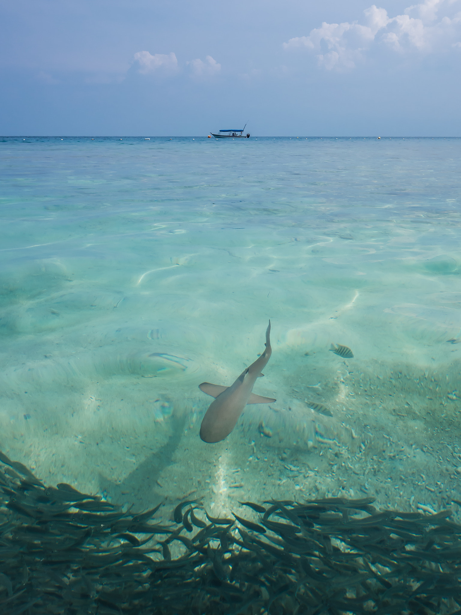 500px provided description: Patrolling the shallows, half a dozen or so juvenile blacktips are using the safe nursing grounds outside a small beach on the island Perhentian Besar to practice the skill of hunting. [#sea ,#animals ,#animal ,#shark ,#wildlife ,#underwater ,#diving ,#dive ,#marine ,#above ,#marine life ,#undersea ,#scuba ,#whitetip reef shark ,#sealife ,#scuba diving ,#marinelife ,#scubadiving ,#school of fish ,#scubadive ,#scuba dive ,#juvenile shark]